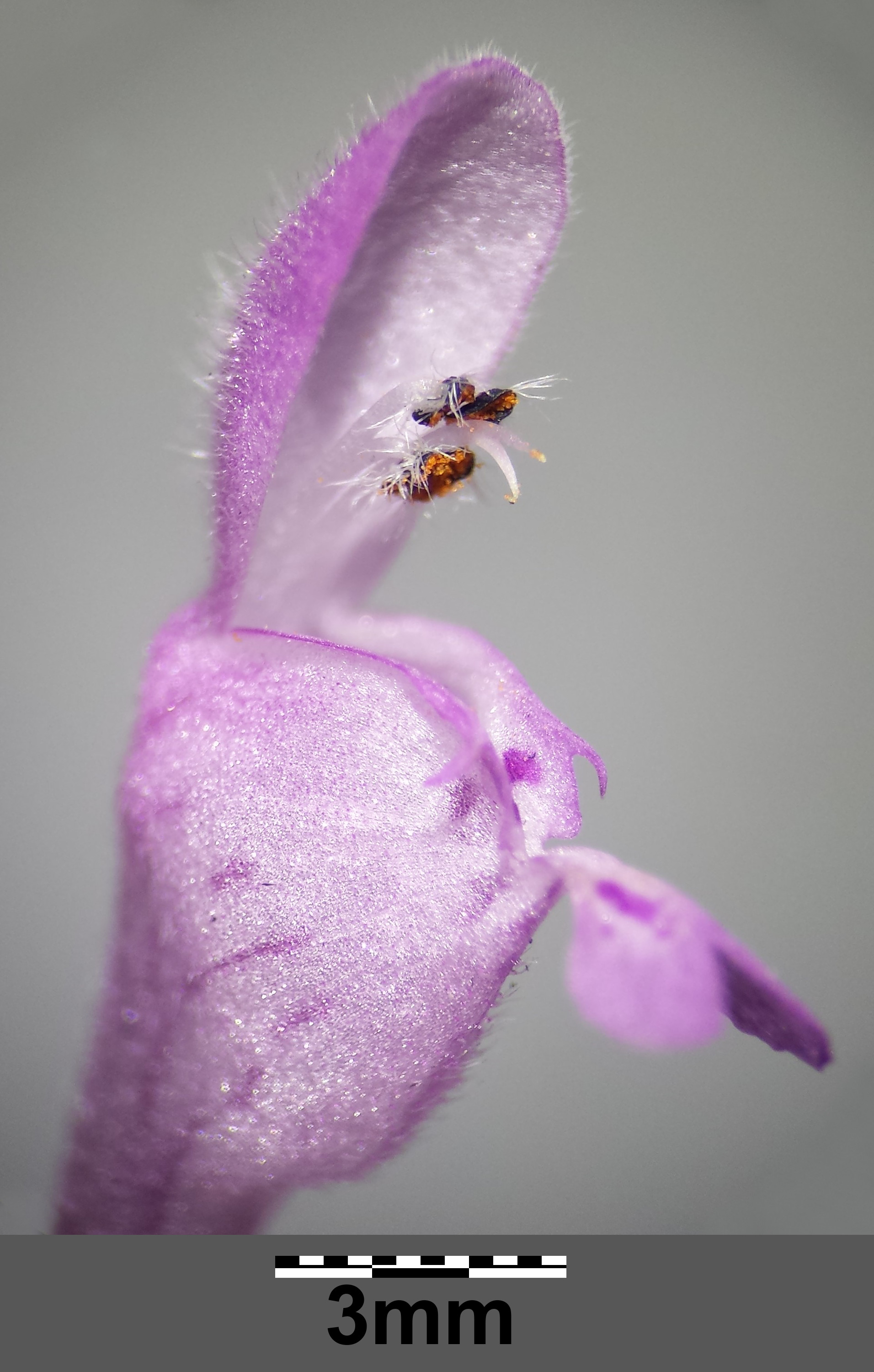 Corolla with hairy anthers Taxonym: Lamium purpureum ss Fischer et al. EfÖLS 2008 ISBN 978-3-85474-187-9 Location: Wasserpark, Vienna-Floridsdorf - ca. 160 m a.s.l. Habitat: dry, ruderal slope